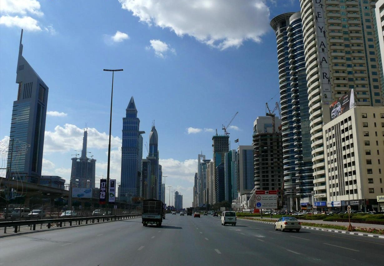 This is a photo of Sheikh Zayed Road in Dubai, United Arab Emirates on 10 January 2008. The tower on the far left is Jumeirah Emirates Towers Hotel. To the right of that is The Index, and behind that is the Burj Dubai. The camera is facing toward Dubai Marina and Abu Dhabi.